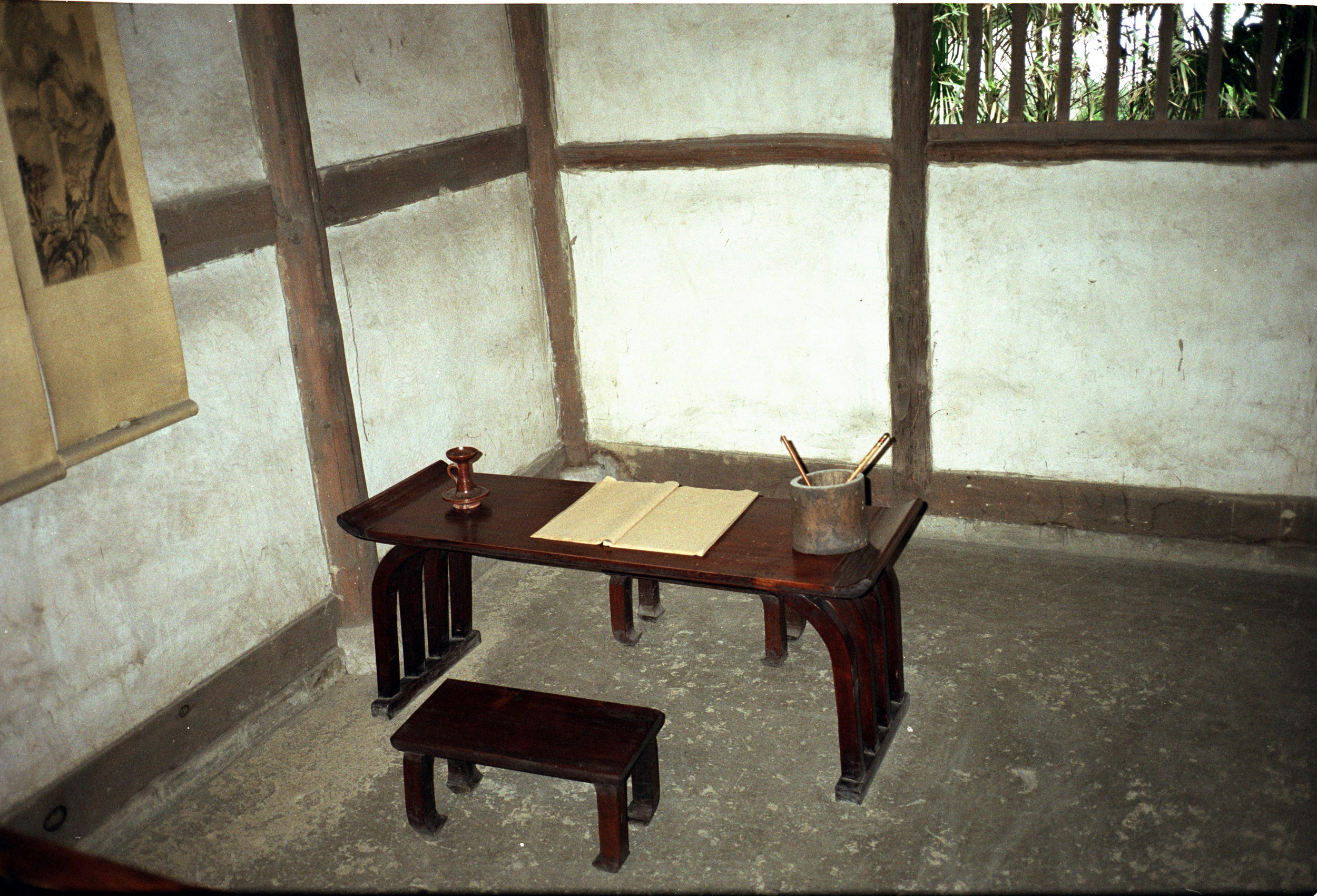 杜甫草堂故居书房; Fu Fu's study in his thatched hut